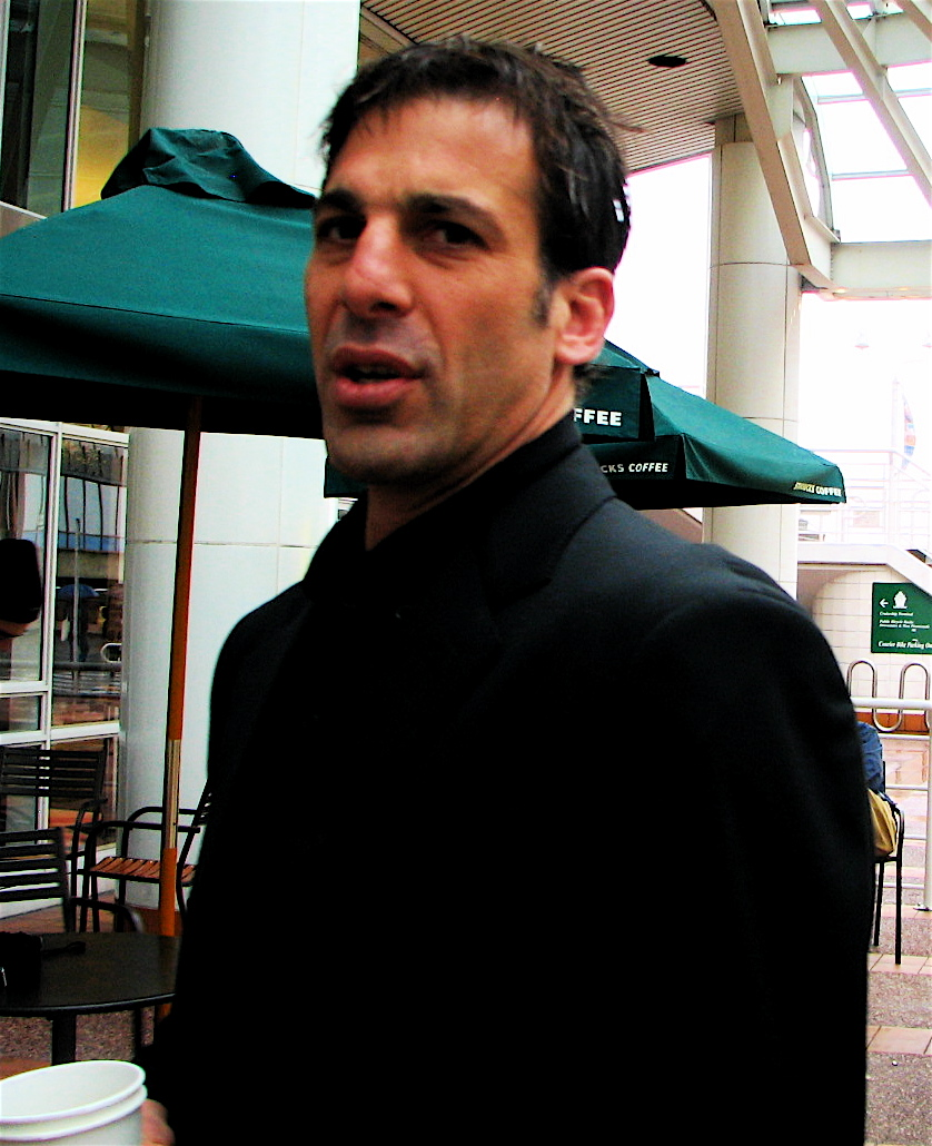 Detroit Red Wings players, Chris Chelios, Kirk Maltby, Robert Lang and Kris Draper heading to the rink from the the Pan Pacific Hotel at Canada Place in Vancouver, BC for the National League hockey game vs Vancouver Canucks on CBC's Hockey Night in Canada.